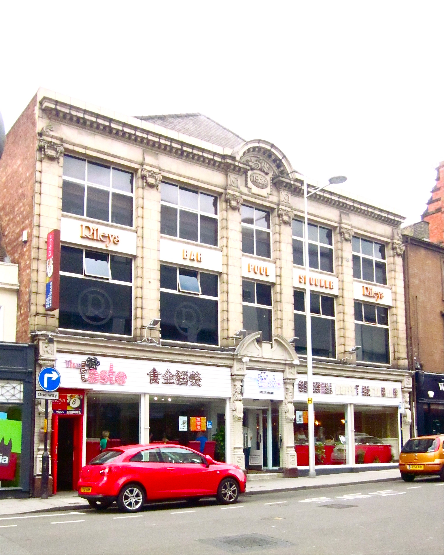 Courts facade, Lincoln. Doulton terracotta